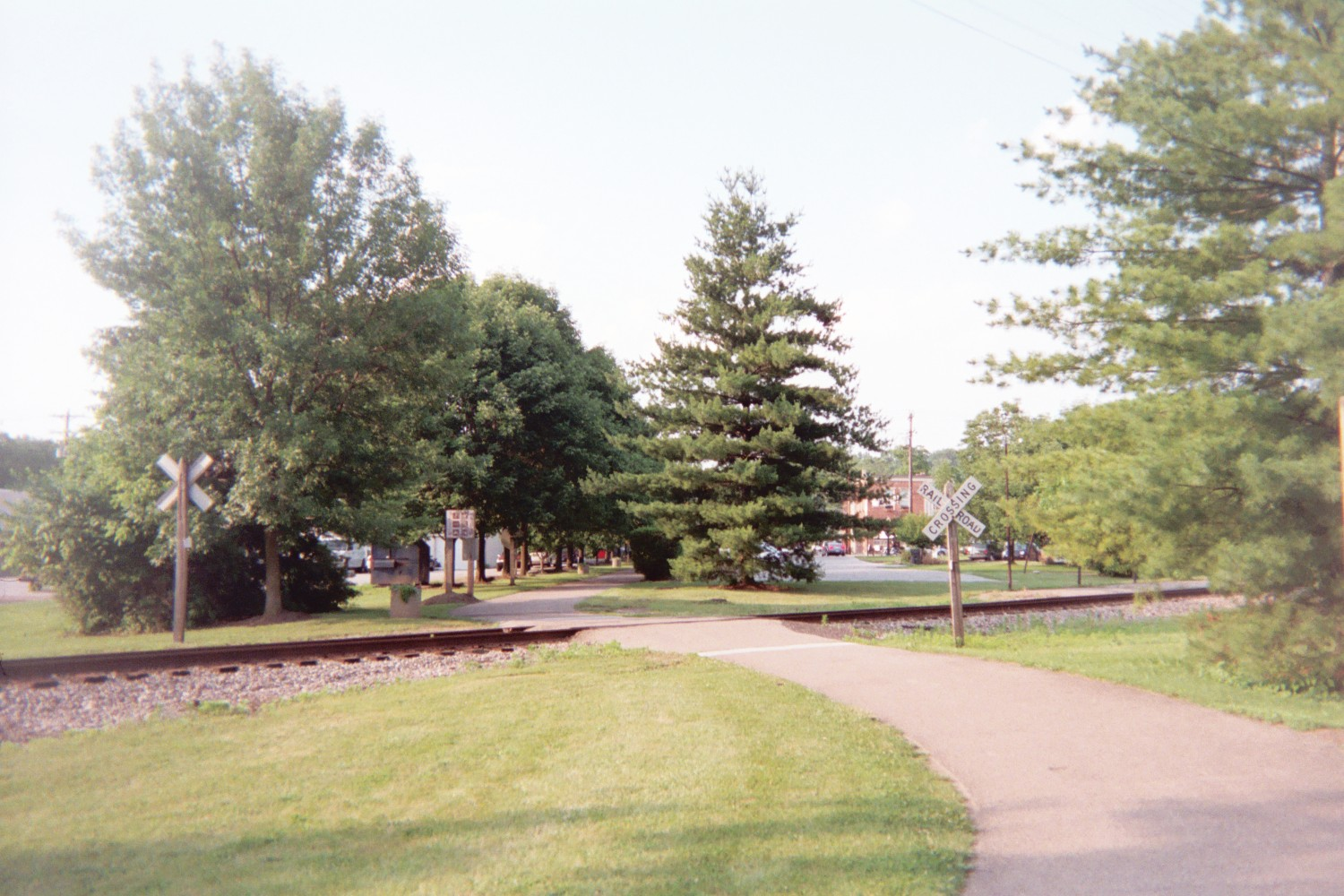 Railroad crossing on the Little Miami Bike Trail in Loveland, Ohio.